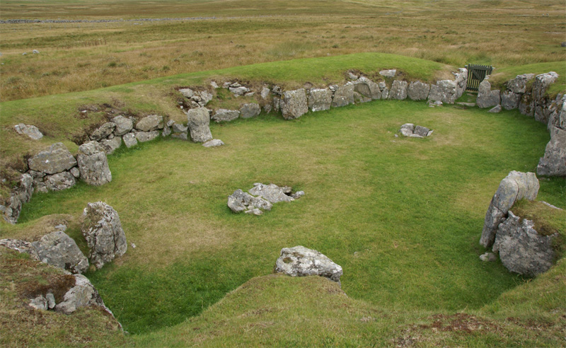 Stanydale 'Temple', Mainland, Shetland, Scotland